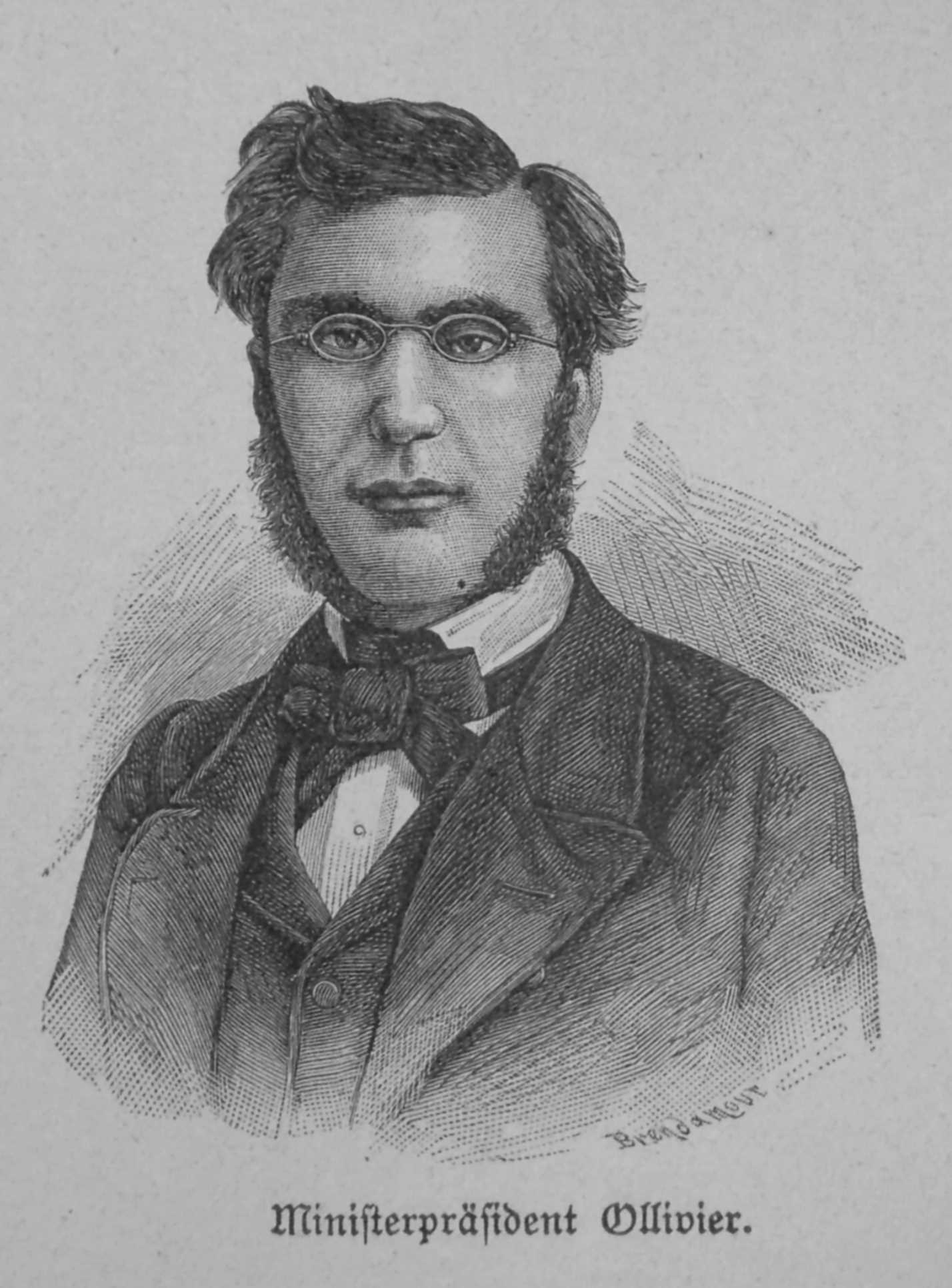 french premier Émile Ollivier